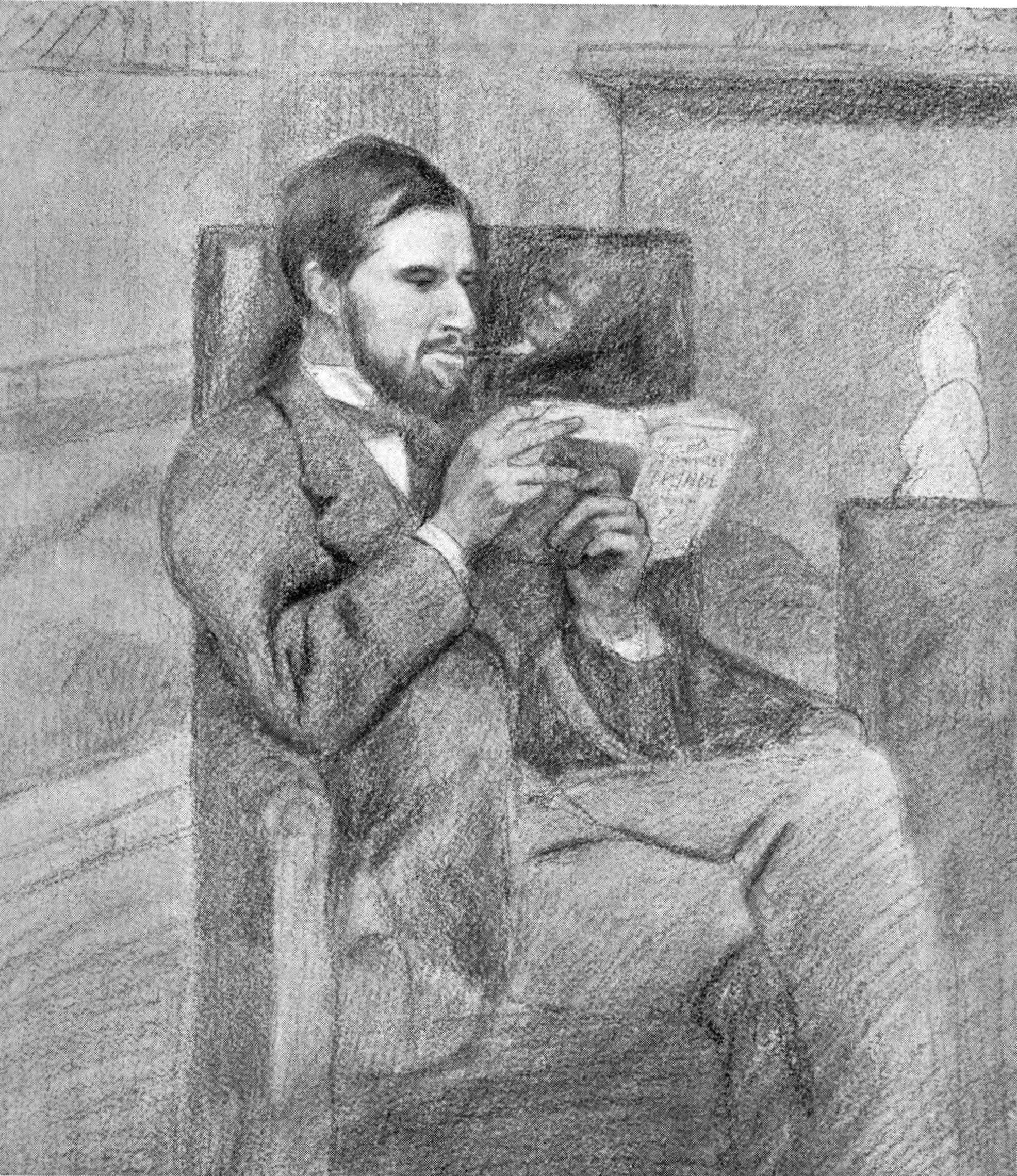 Crayon drawing of Evan Buchanan Baxter, M.D., (1844–1885)